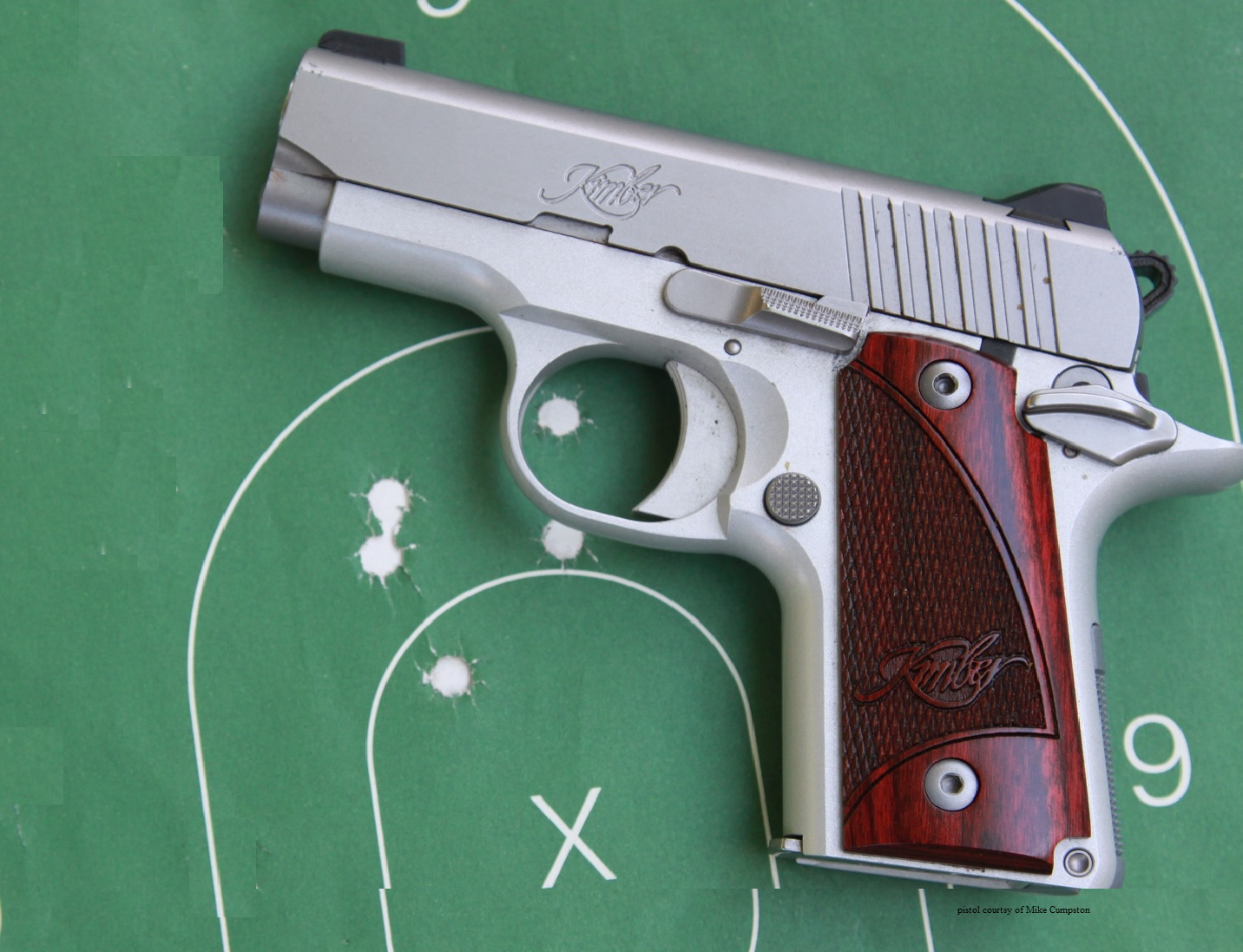 Kimber Micro Carry .380 Stainless Rosewood.